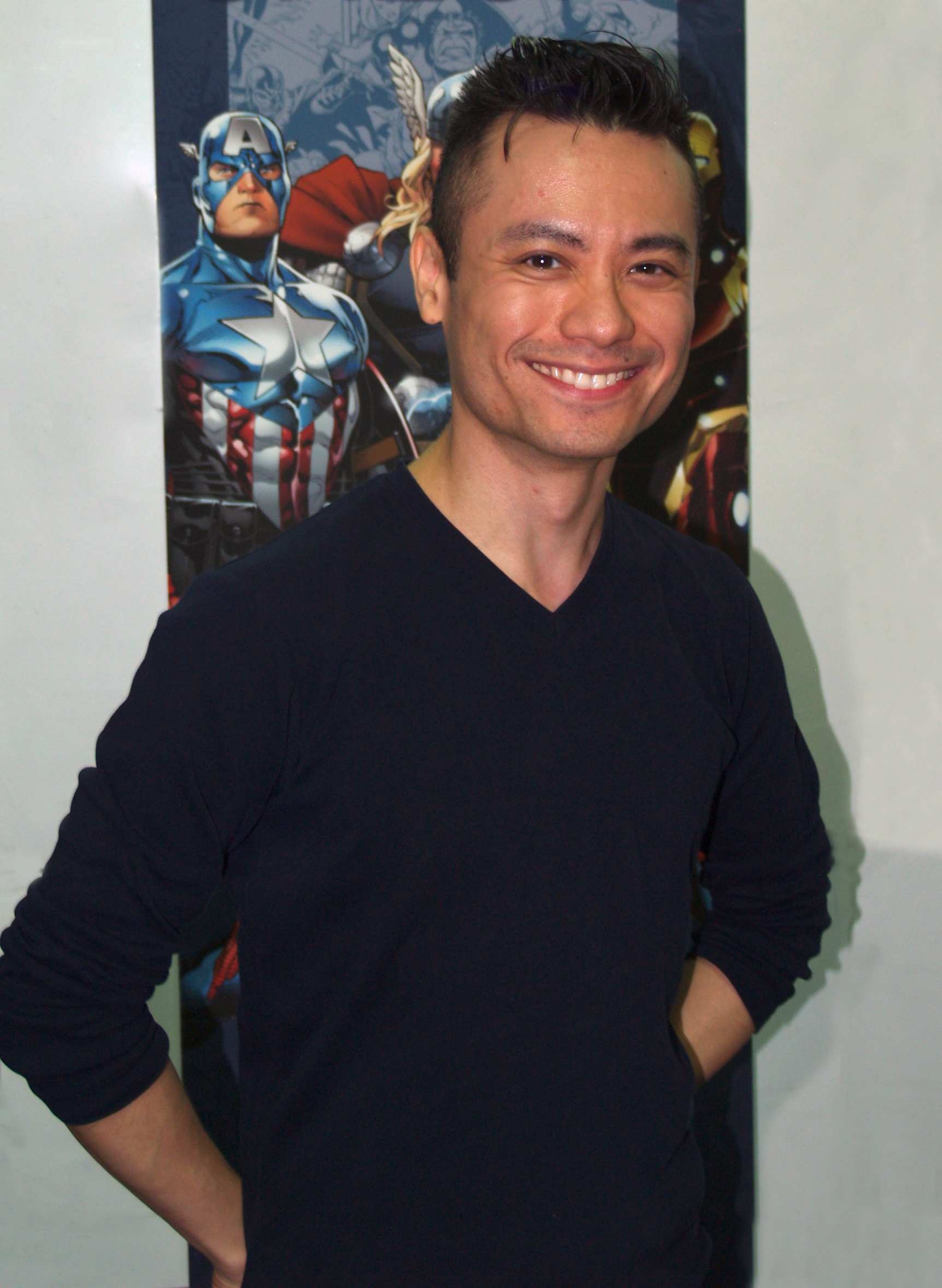 Comic book artist Jim Cheung in Artist Alley at the Jacob K. Javits Convention Center in Manhattan, on Saturday October 8, 2016, Day 3 of the 2016 New York Comic Con. This photo was created by Luigi Novi. It is not in the public domain, and use of this file outside of the licensing terms is a copyright violation.